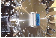 Datalogger with integrated 3-axis acceleration sensor measuring vibrations on a tool carousel of a CNC lathe